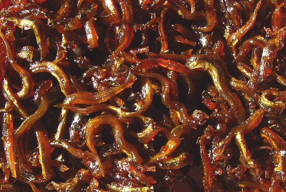 own picture from digital camera, January 2005